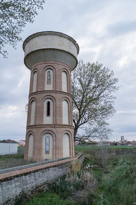 Depósito de agua